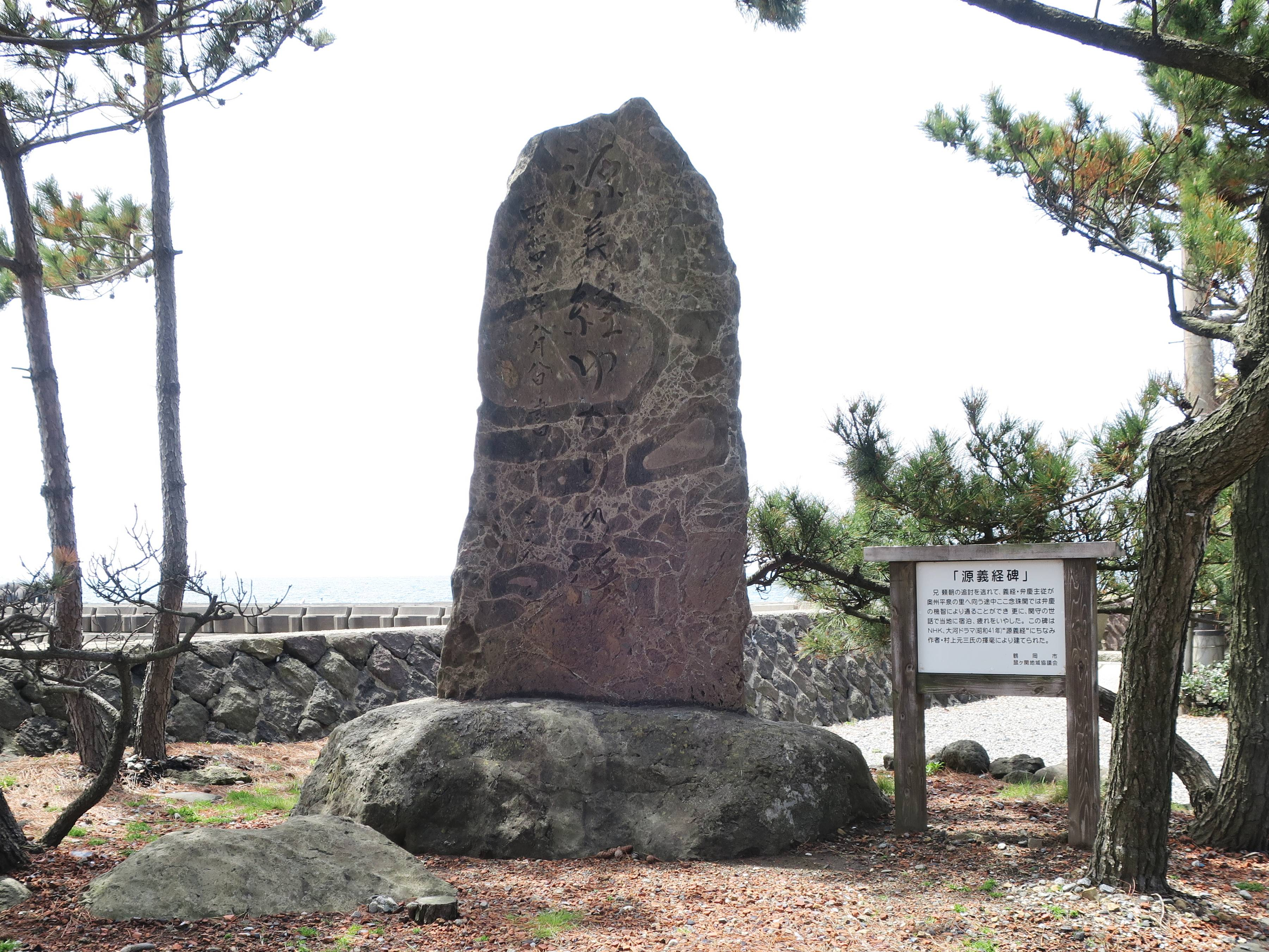 Itsukushima-jinja (Tsuruoka, Yamagata).